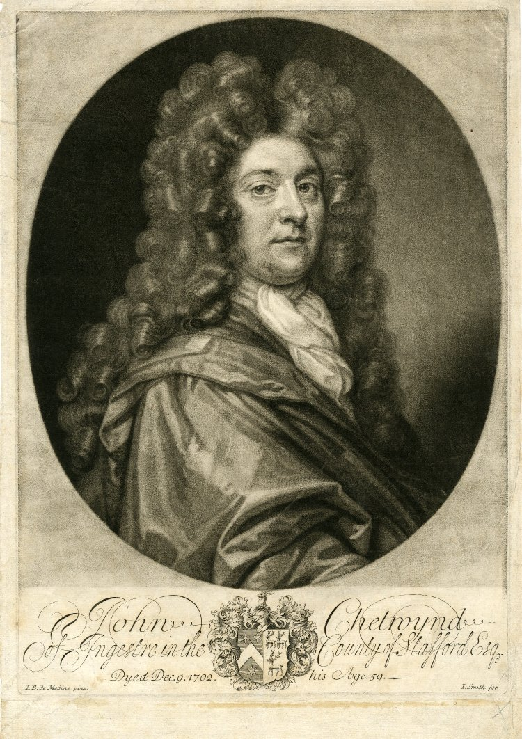 "John Chetwynd of Ingestre in the County of Stafford Esq," mezzotint, by the English publisher and printmaker John Smith, after Sir John Baptist de Medina. British Museum, London. John Chetwynd (1643-1702), of Rudge, near Sandon, Staffordshire was a Member of Parliament for Stafford from 1689 to 1695, and again in 1701 and 1702. In the intervening period he sat for Tamworth in 1698–1700. Sheriff of Staffordshire for 1695–96. He married Lucy Roane, daughter of Robert Roane of Tullesworth, Chaldon, Surrey. Arms of Roane: Argent, three stags trippant proper.